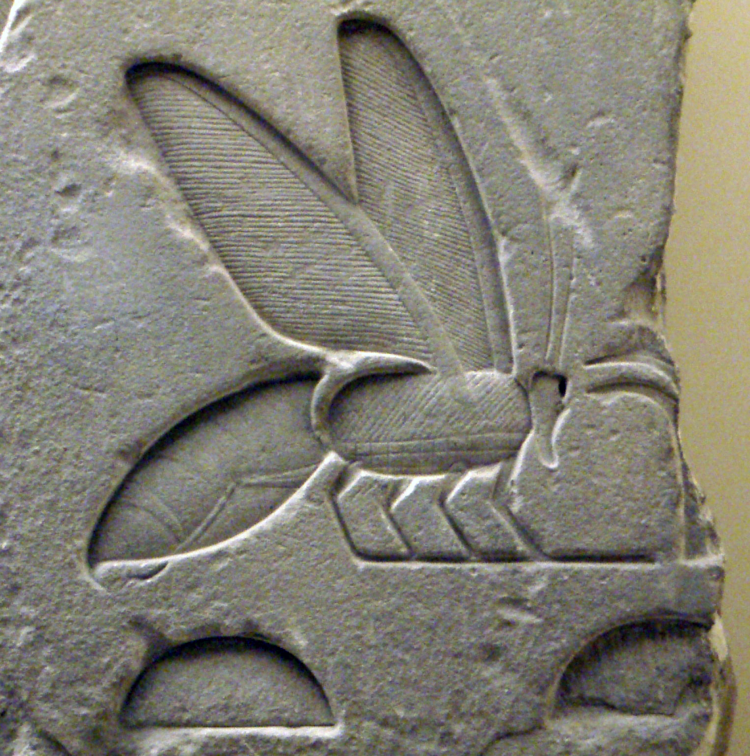 Detail of a Bee Hieroglyph from the tomb complex of Senusret I, from his "Sedge and Bee" title-("Nesu-Bity").Also shown: Each T-(semi-circle) hieroglyph, and the partial of the Sedge hieroglyph.